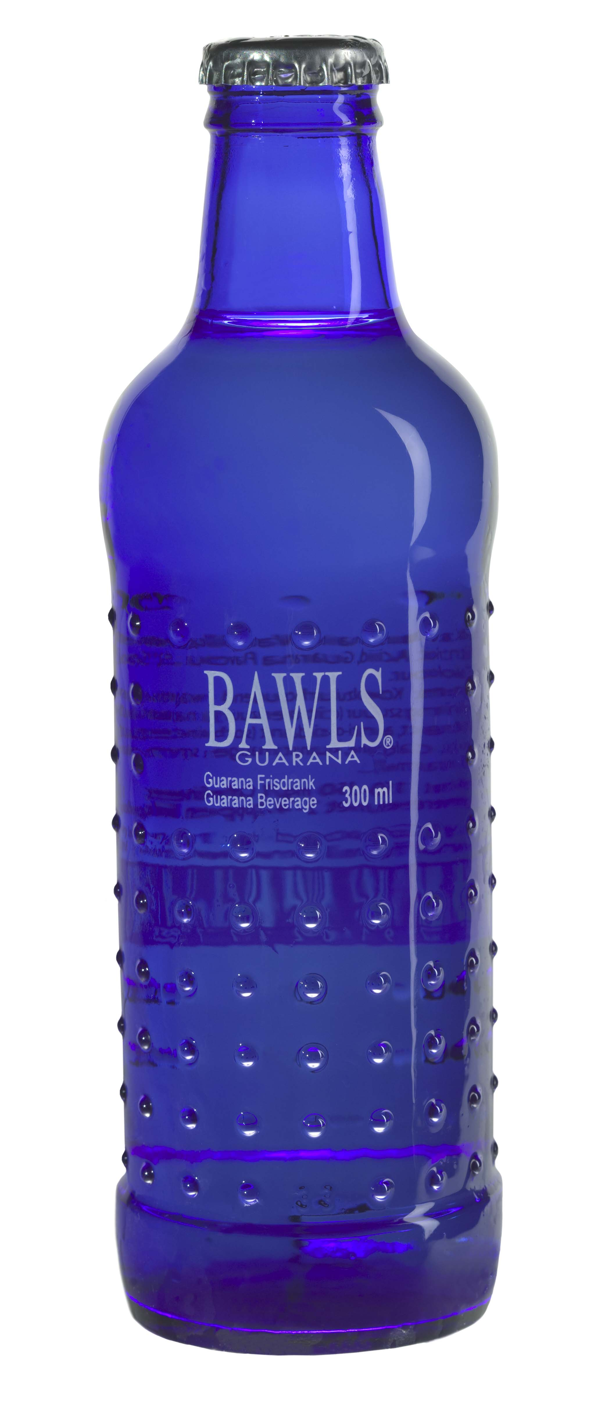 BAWLS Guarana Bleu Bottle Dutch